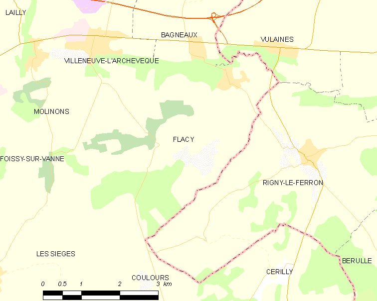 Map of French municipality Flacy